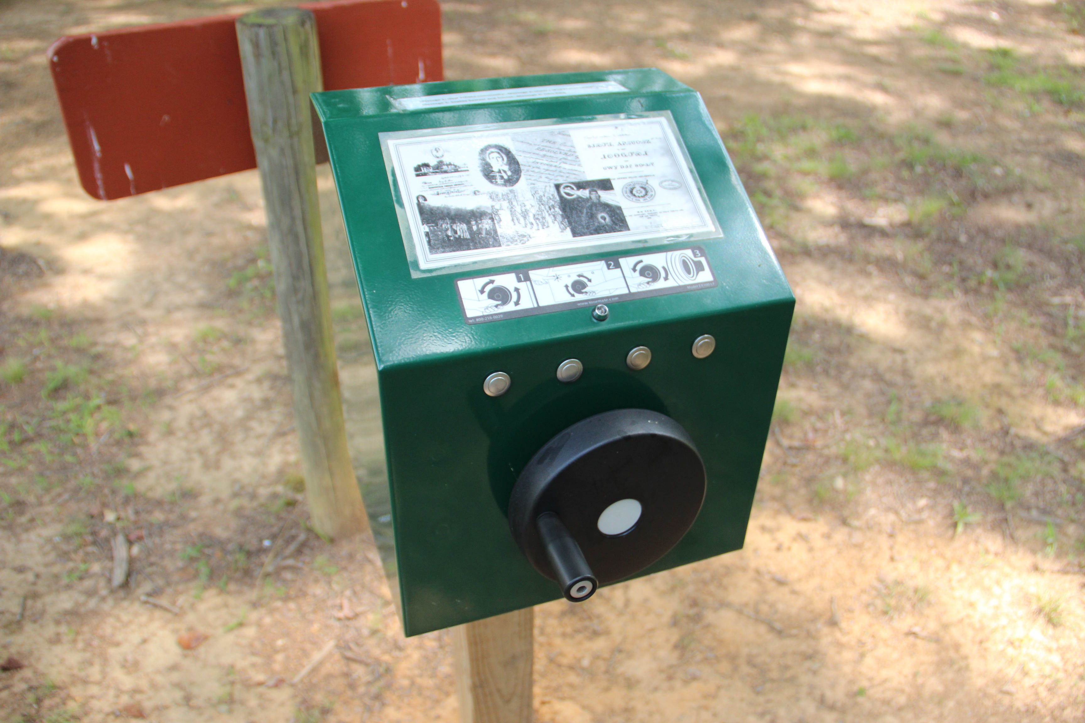 A Tour-Mate Systems Eco-Box at New Echota